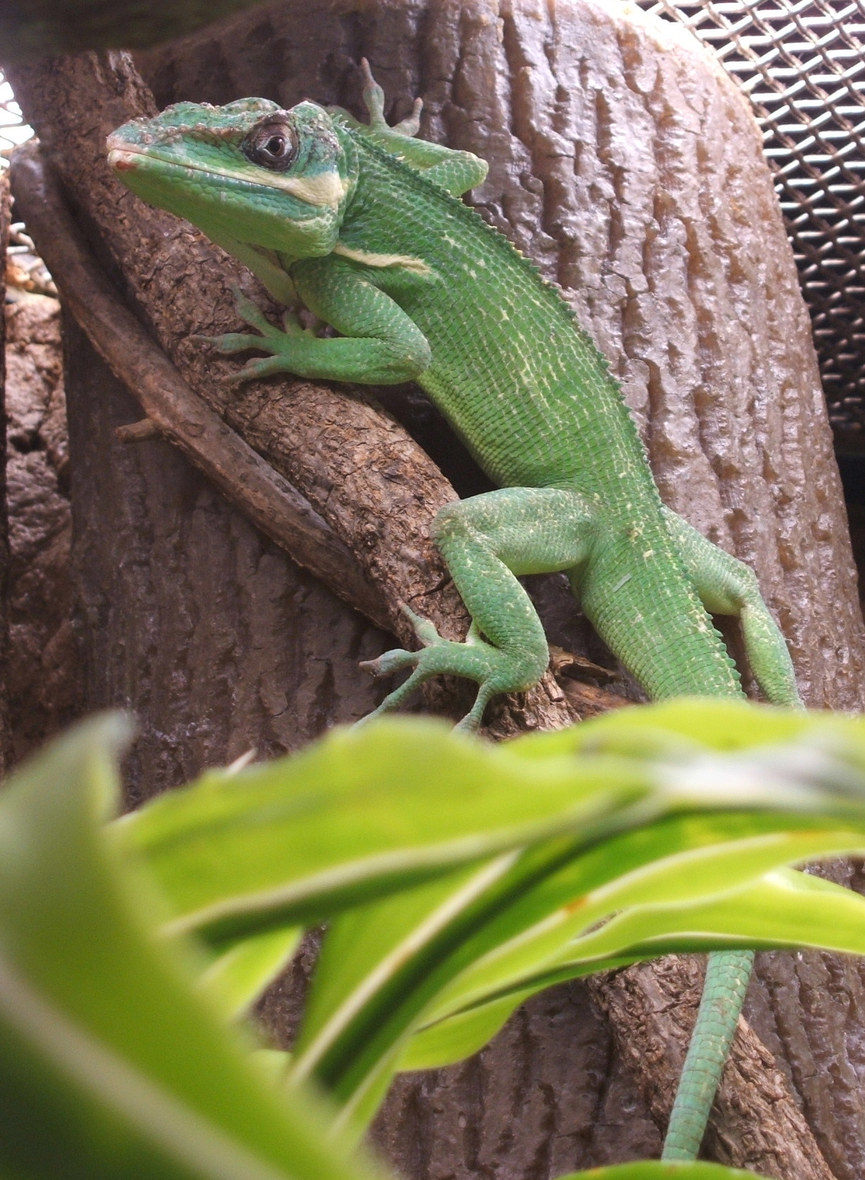 Knight Anole (Anolis equestris) at Boston Museum of Science